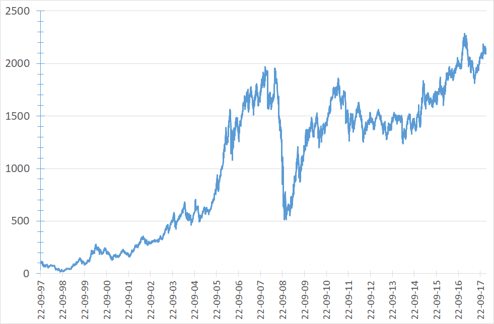 MICEX from September 1997 to December 2017 (daily closings) Data source: Stooq